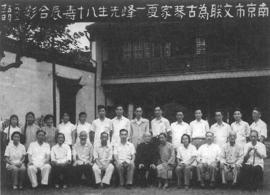 80th birthday of Xia Yifeng, a famous Guqin player